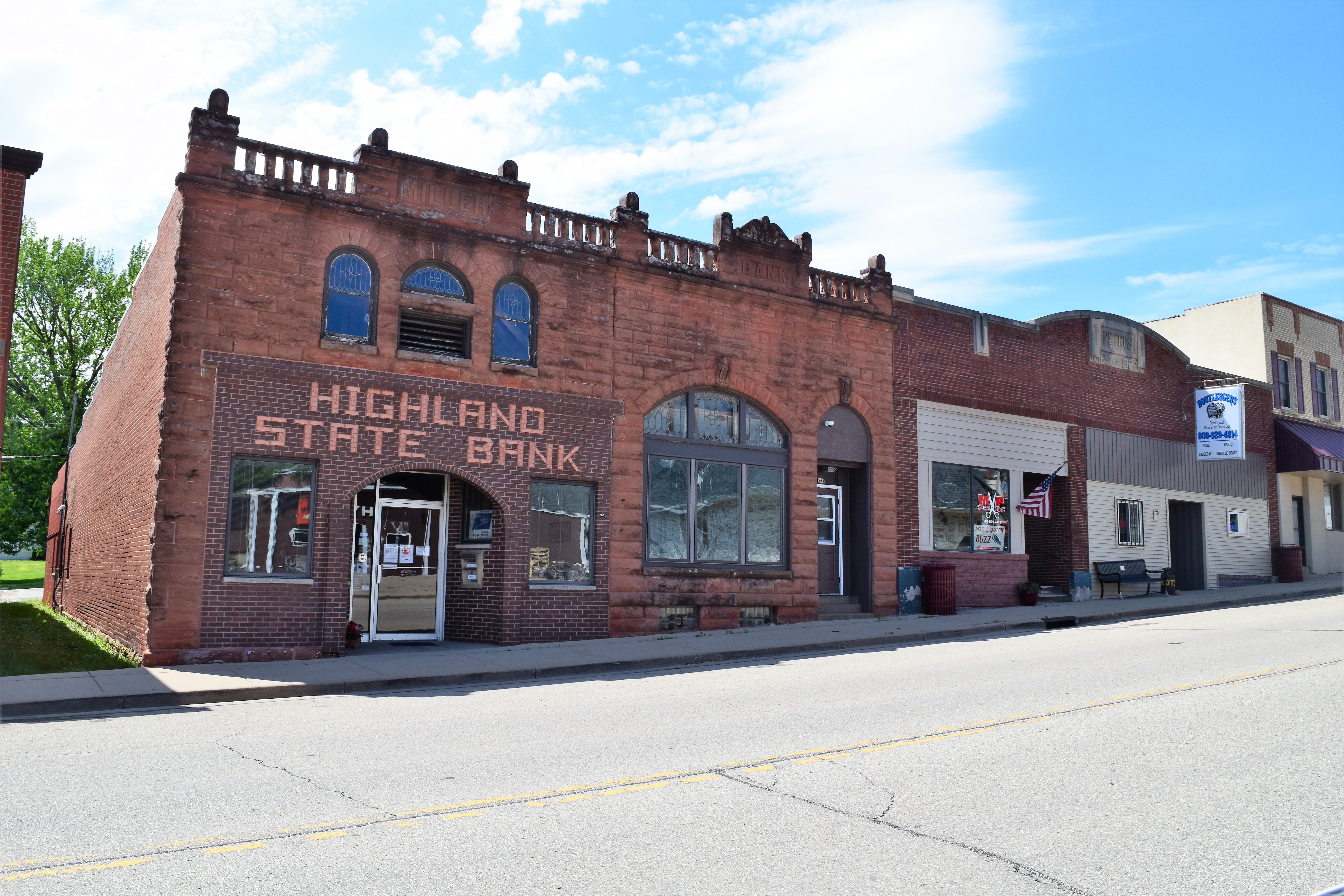 Highland State Bank in downtown Highland, Wisconsin.